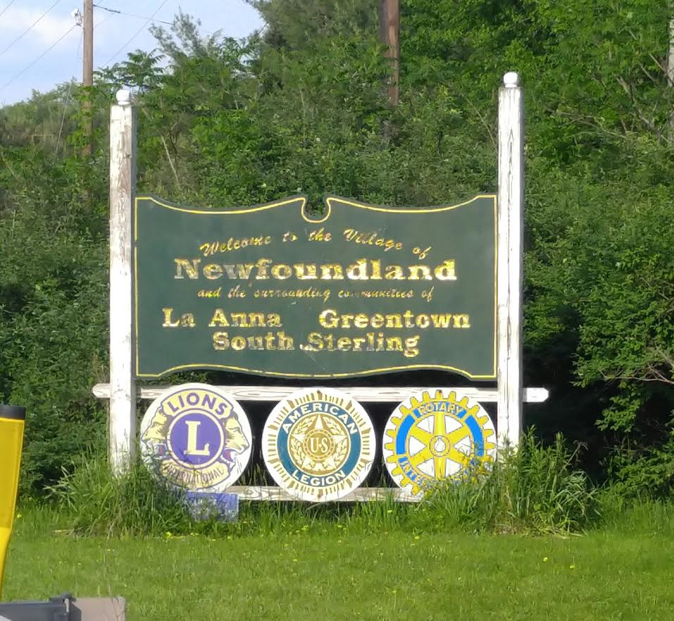 A sign at the border of Newfoundland, PA welcoming commuters.